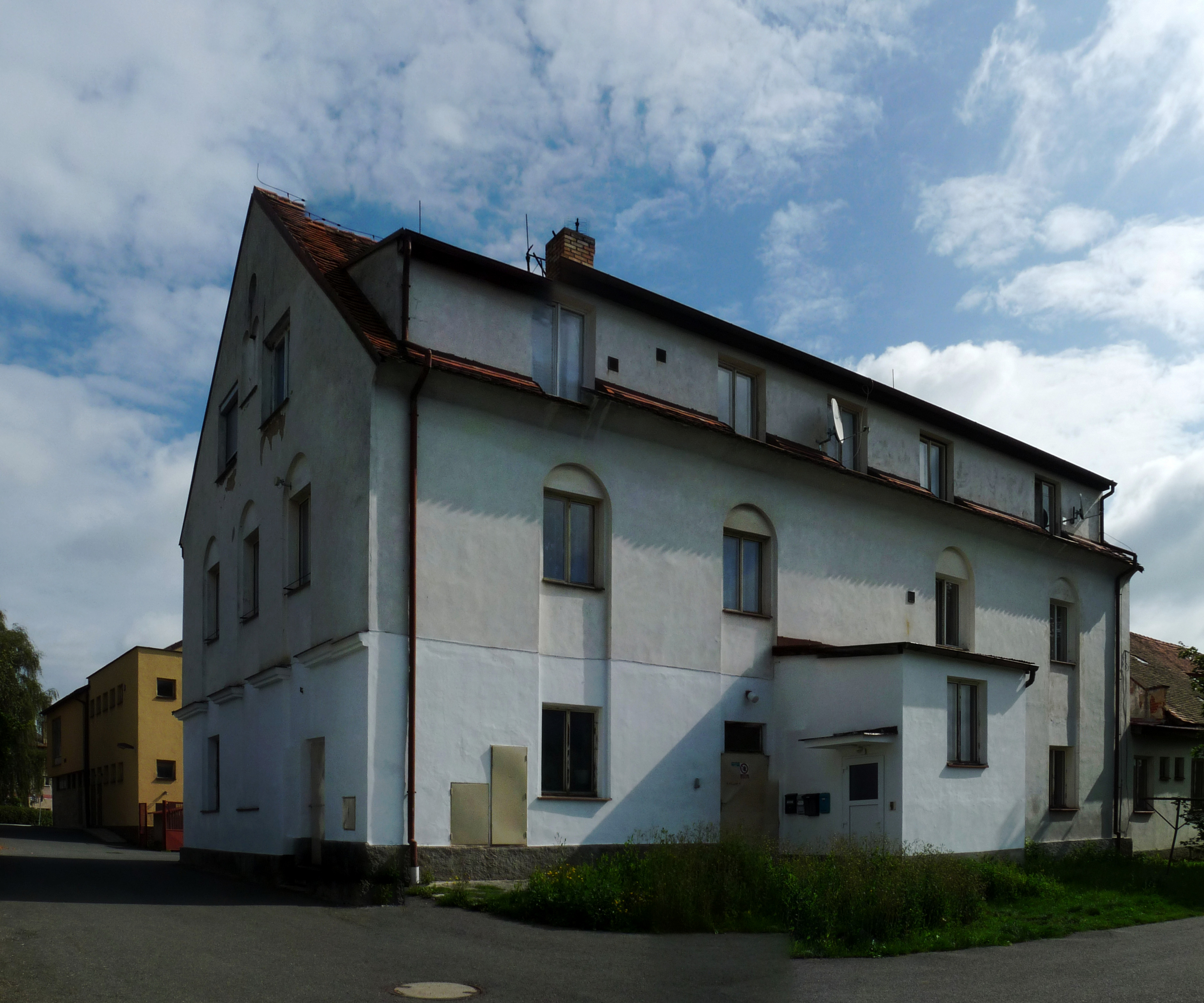 Synagogue in Petrovice, Příbram District, Central Bohemian Region, Czech Republic.